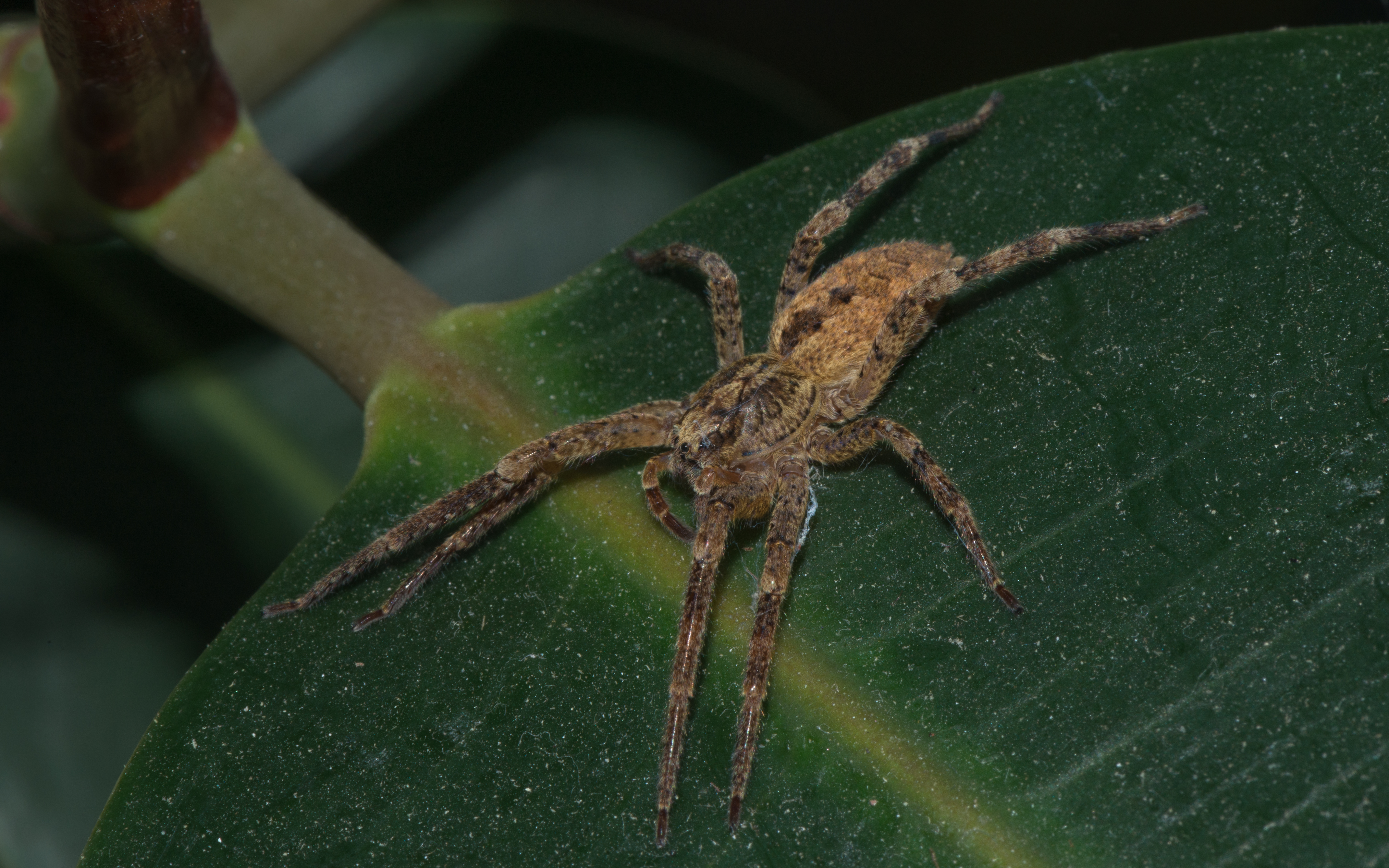 Zoropsis spinimana.